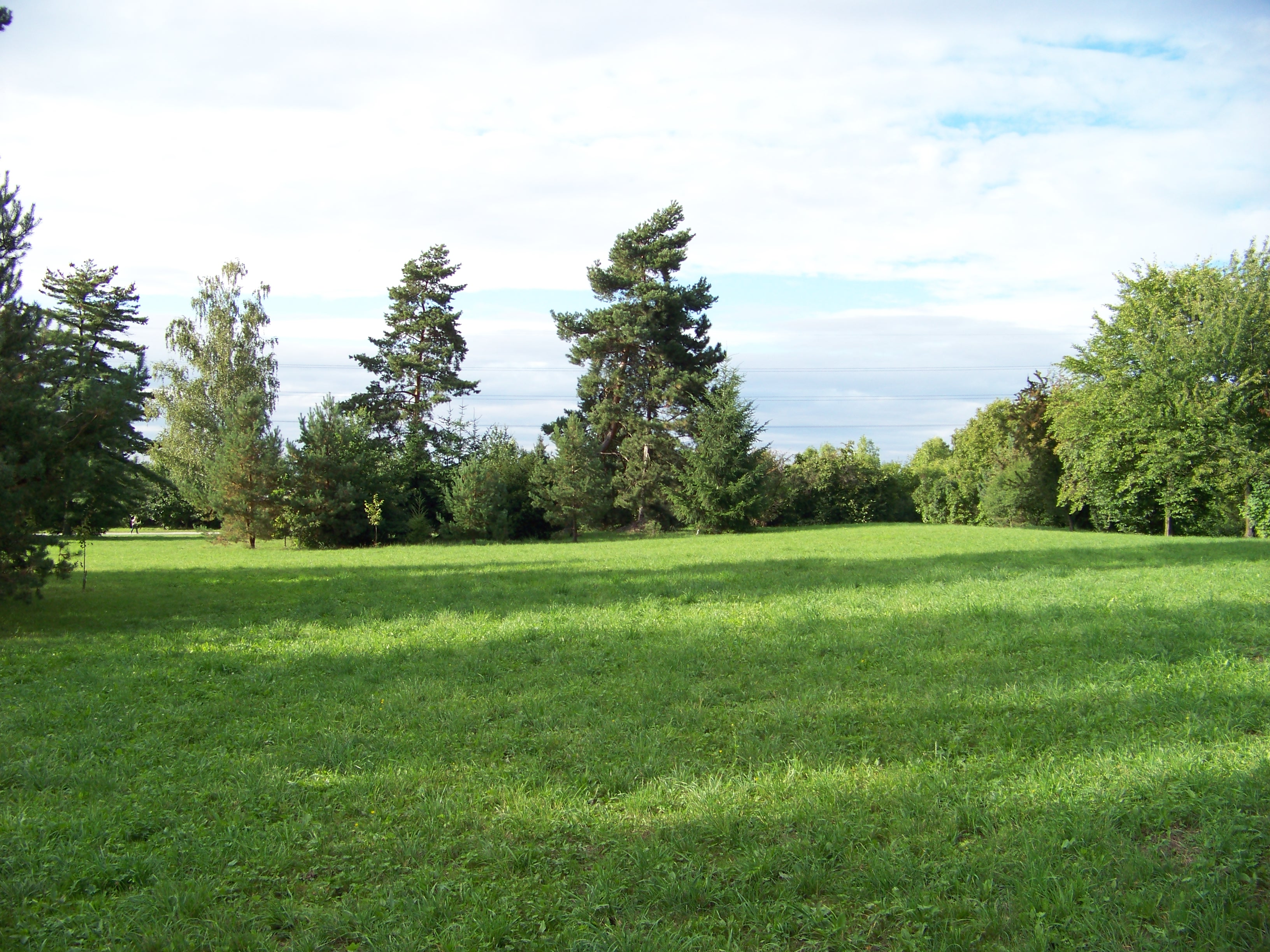 Prague-Hostivař, the Czech Republic. A former fortified settlement. - OpenStreetMap(Info)